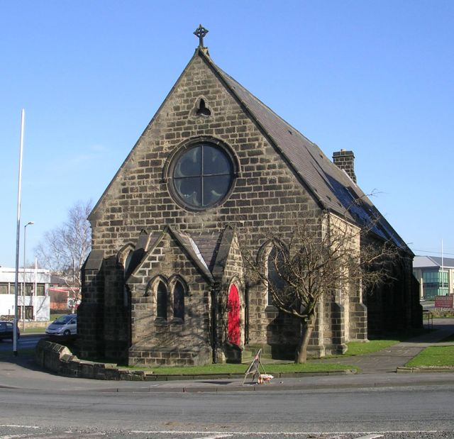 Trinity Sunday School - New Road Side, Rawdon